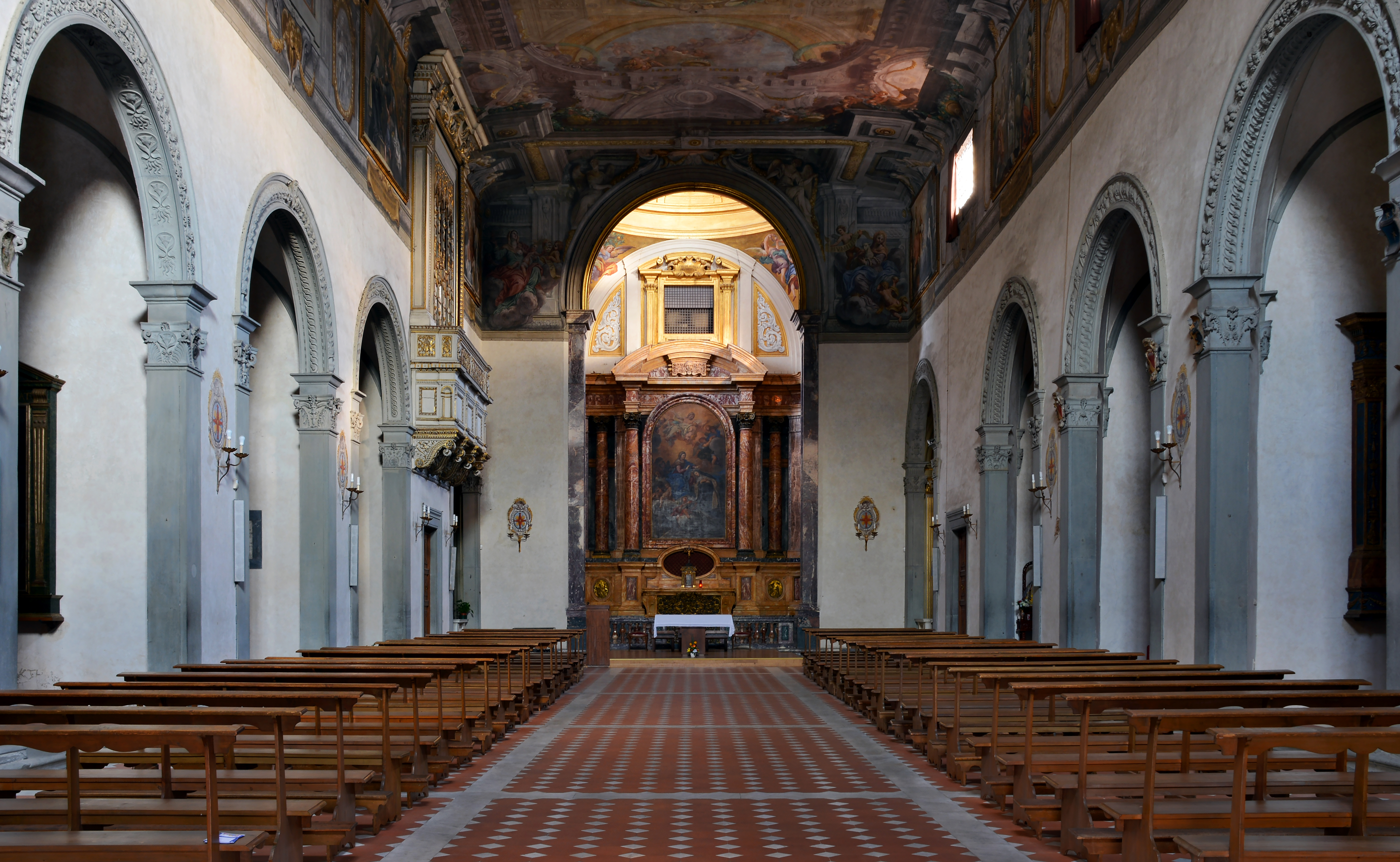 Santa Maria Maddalena de' Pazzi (Florence) - Interior